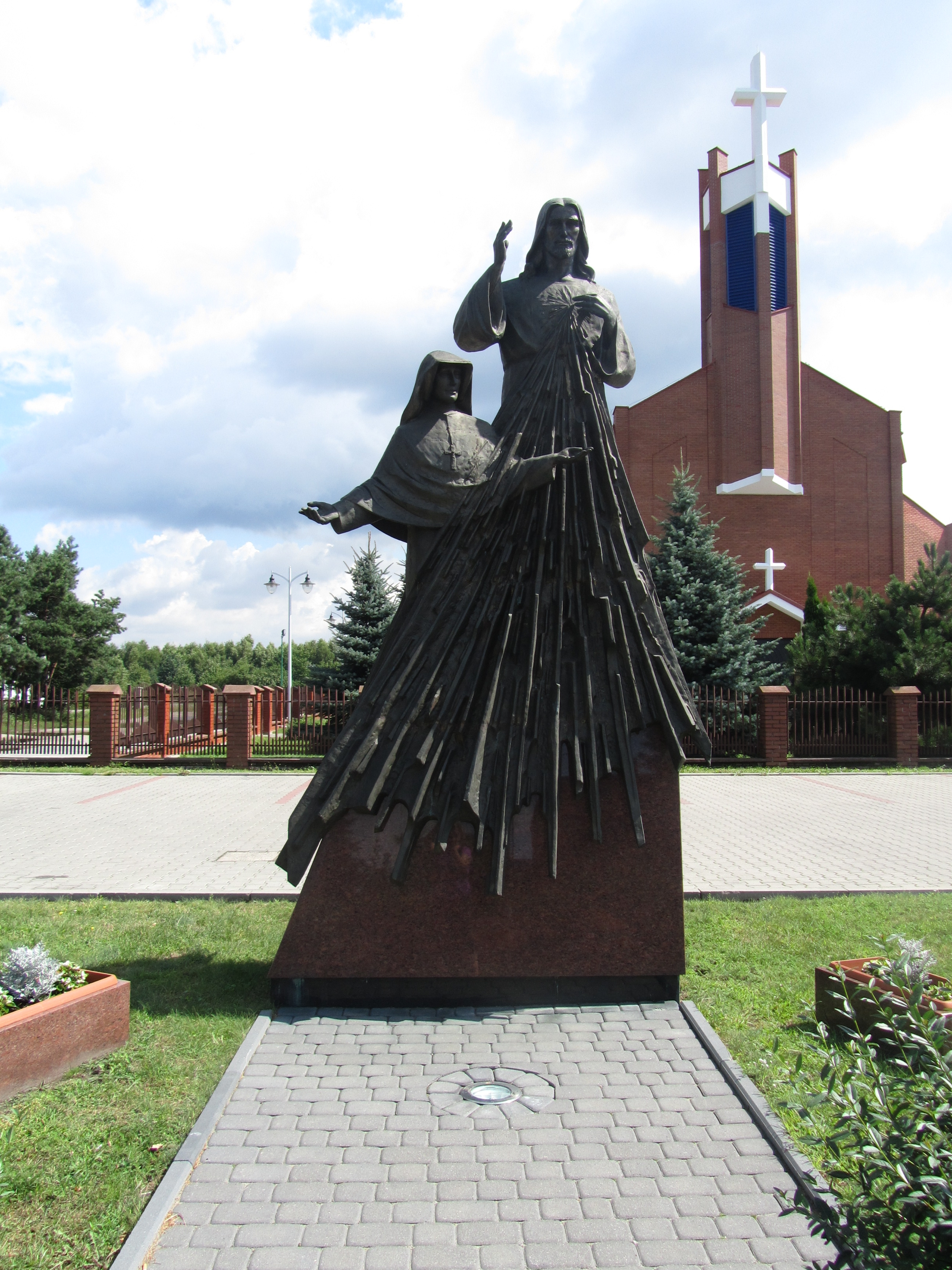 St. Faustyna and Jesus, I Trust in You sculpture, Piotrków Trybunalski, Łódzka Street